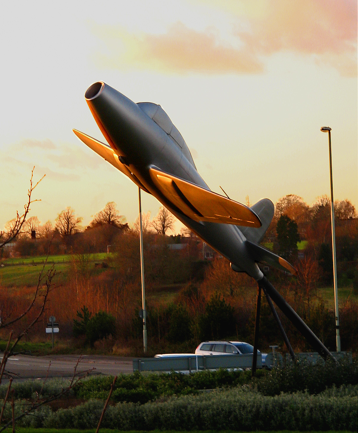 The memorial to Frank Whittle in the middle of a roundabout just south of Lutterworth. It is a full sized replica of the Gloster E.28/39, the engine of which was produced in Lutterworth.